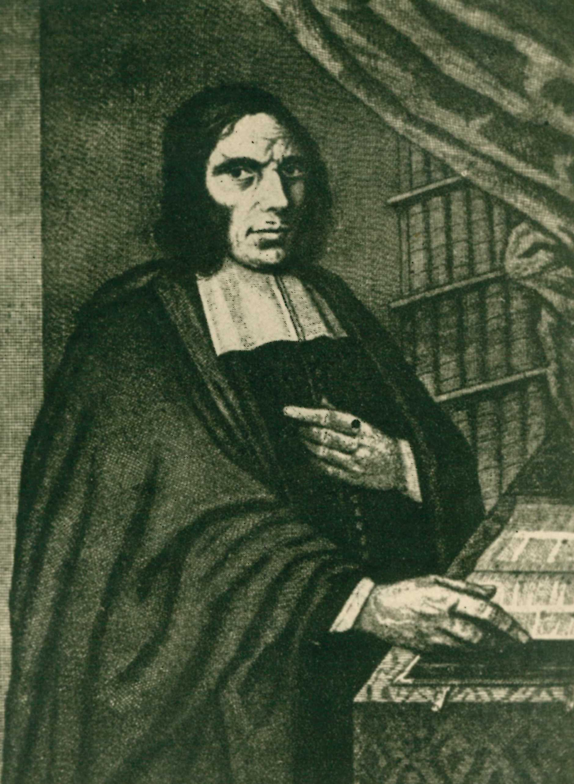 The German preacher and pietist Theodor Undereyck (1635-1693)